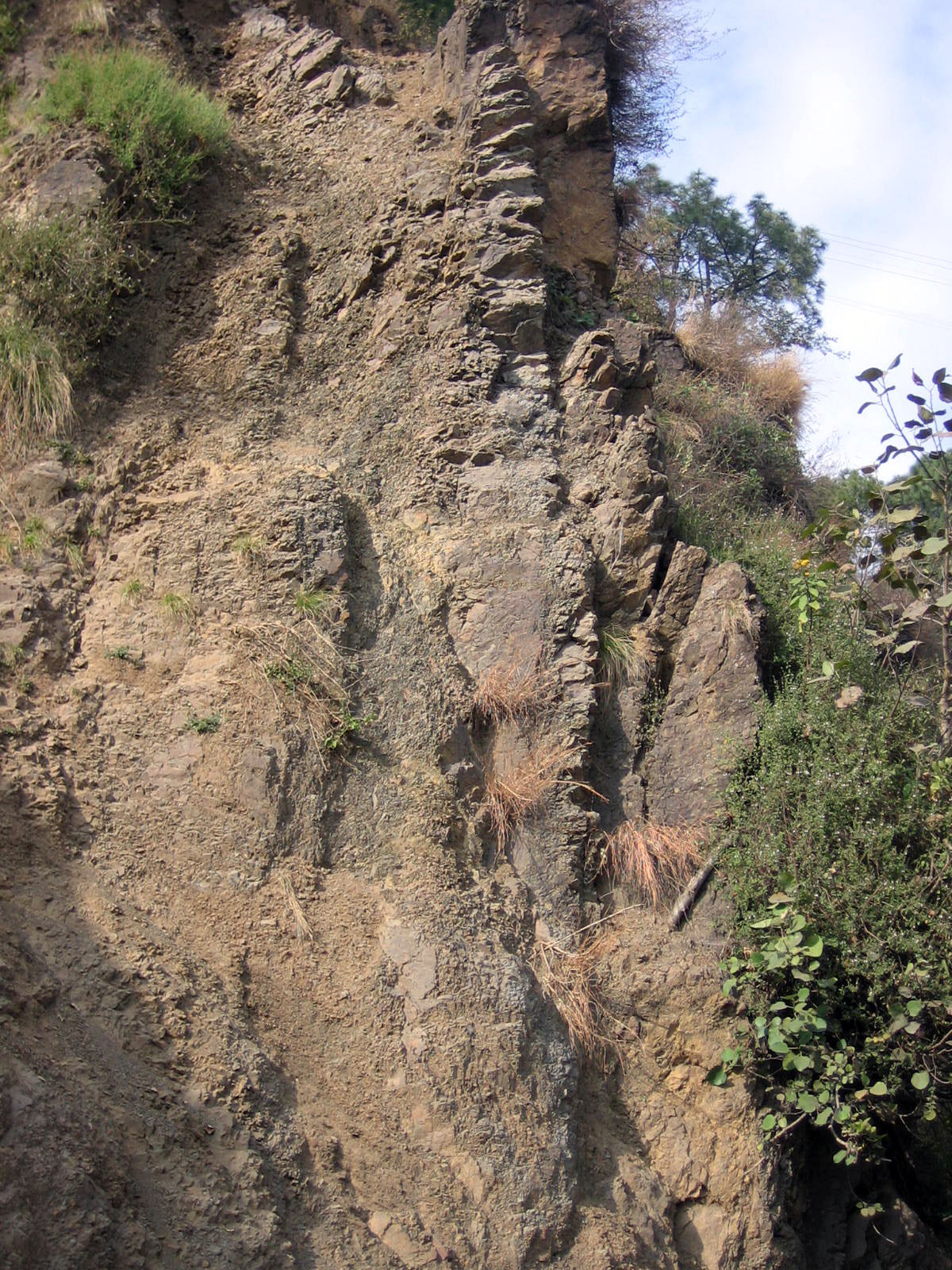 The Subathu formation containing predominantly of shales and minor amounts of sand. Field picture taken close to the city of Simia, India. Picture courtesy of Dr. Peter Clift, LSU Geology and Geophysics